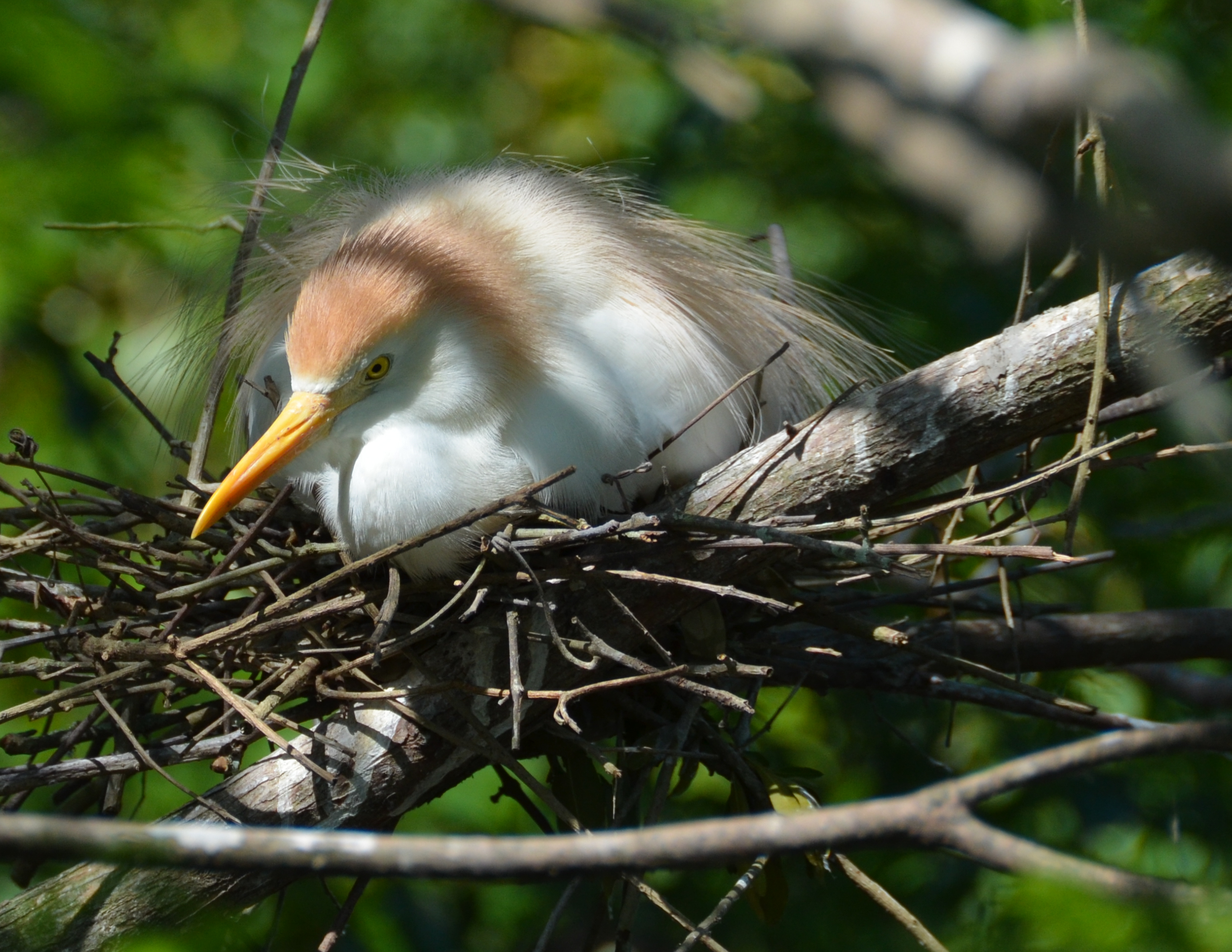 Cattle Egret on nest, Florida, by Bonnie Gruenberg